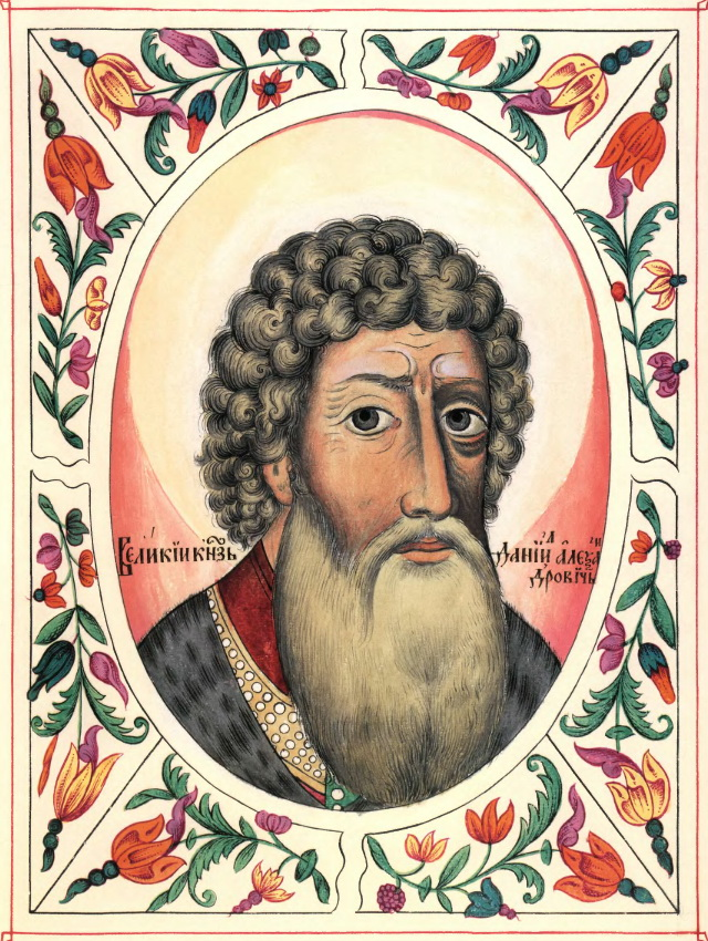 danila of Moscow.